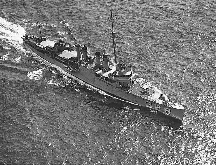 The U.S. Navy destroyer USS Lamson (DD-328) underway, circa 1927.